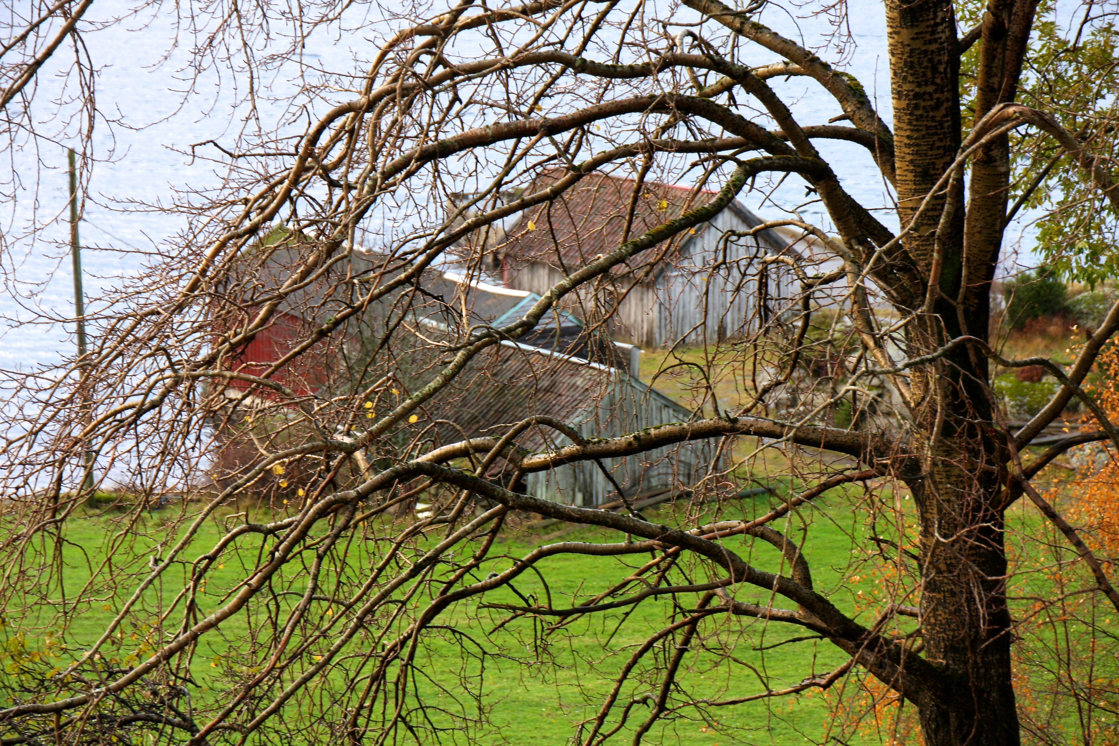 Gulen municipality, Norway.